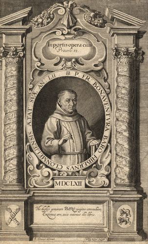 Bonaventura Baron (1610-1696)